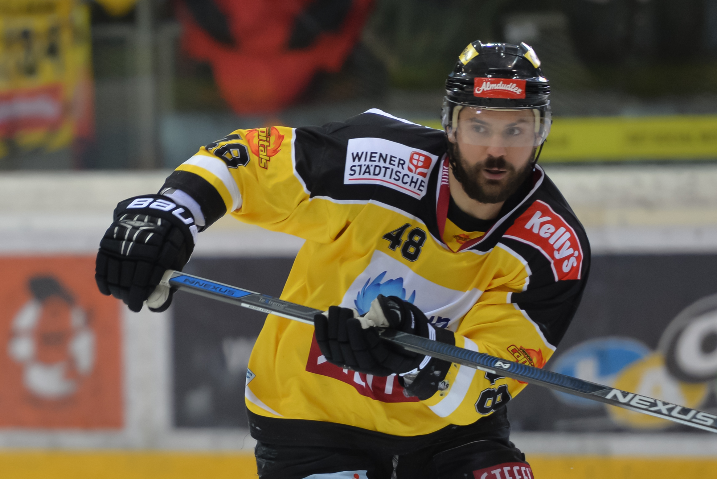 EBEL Vienna Capitals vs. EHC Liwest Black Wings Linz 2016-01-24